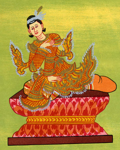 Myaukbet Shinma nat (spirit), 33rd in the official pantheon of Burmese nats